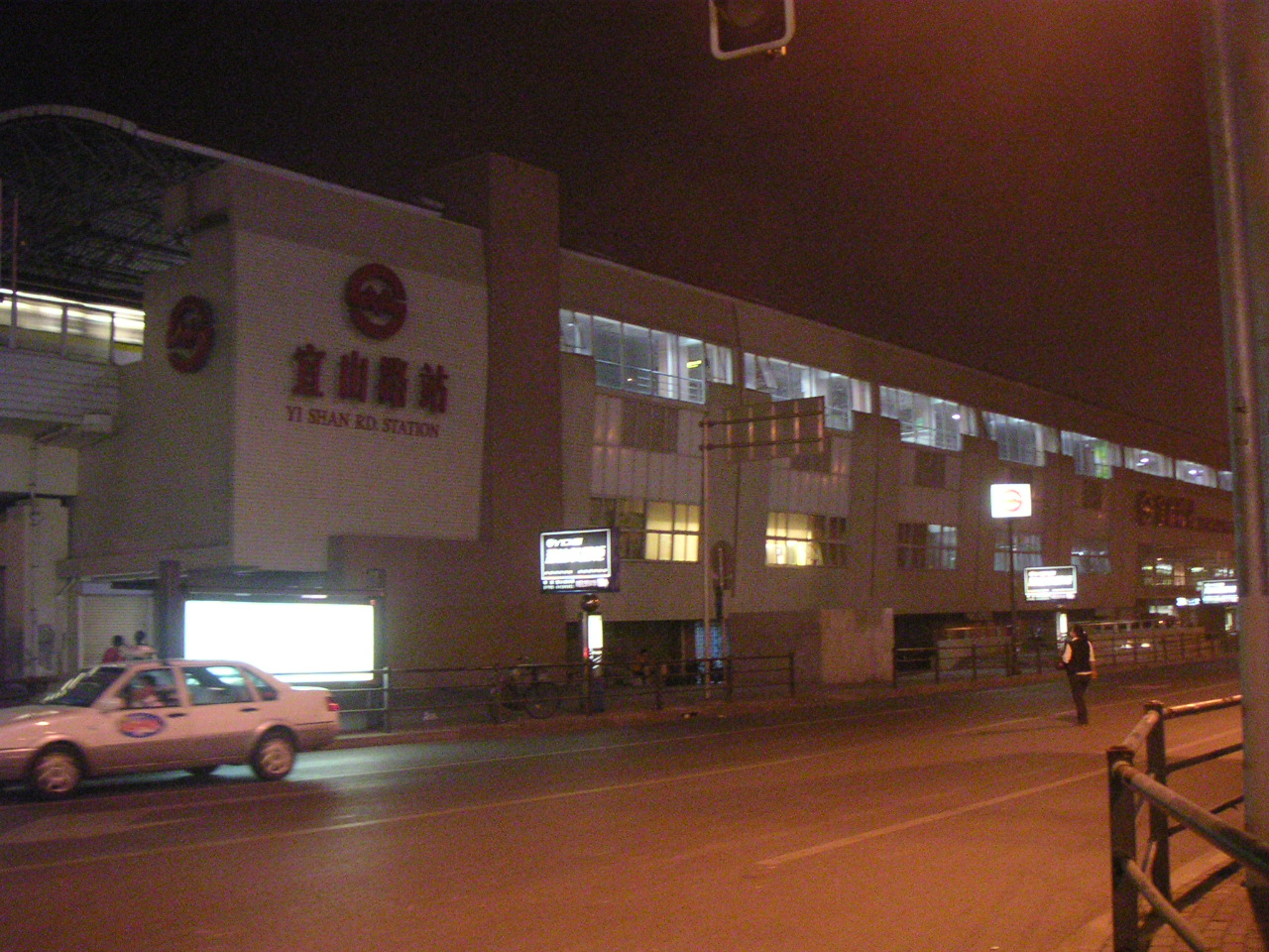 Shanghai Metro Yishan Road Station